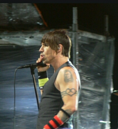 Anthony Kiedis during Red Hot Chili Peppers concert in Bilbao, 2007